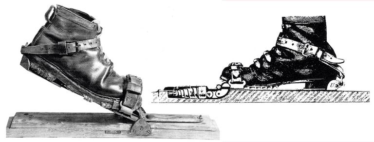 Mathias Zdarsky's Ski-Binding Patent Illustration from the Vieanna Patent Register from the year 1886